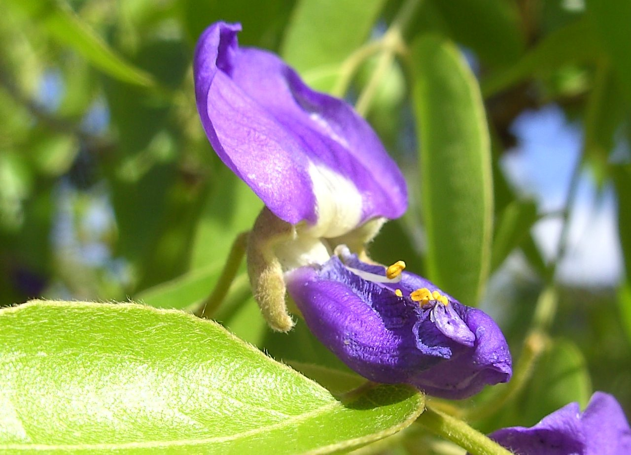 Bolusanthus speciosus Legume - violet flowers - fibrous bark - free anthers - compound leaves - imparipinnate, up to 5 pairs leaflets sub-opposite - pod guess 4-5 seeds. Bolusanthus speciosus